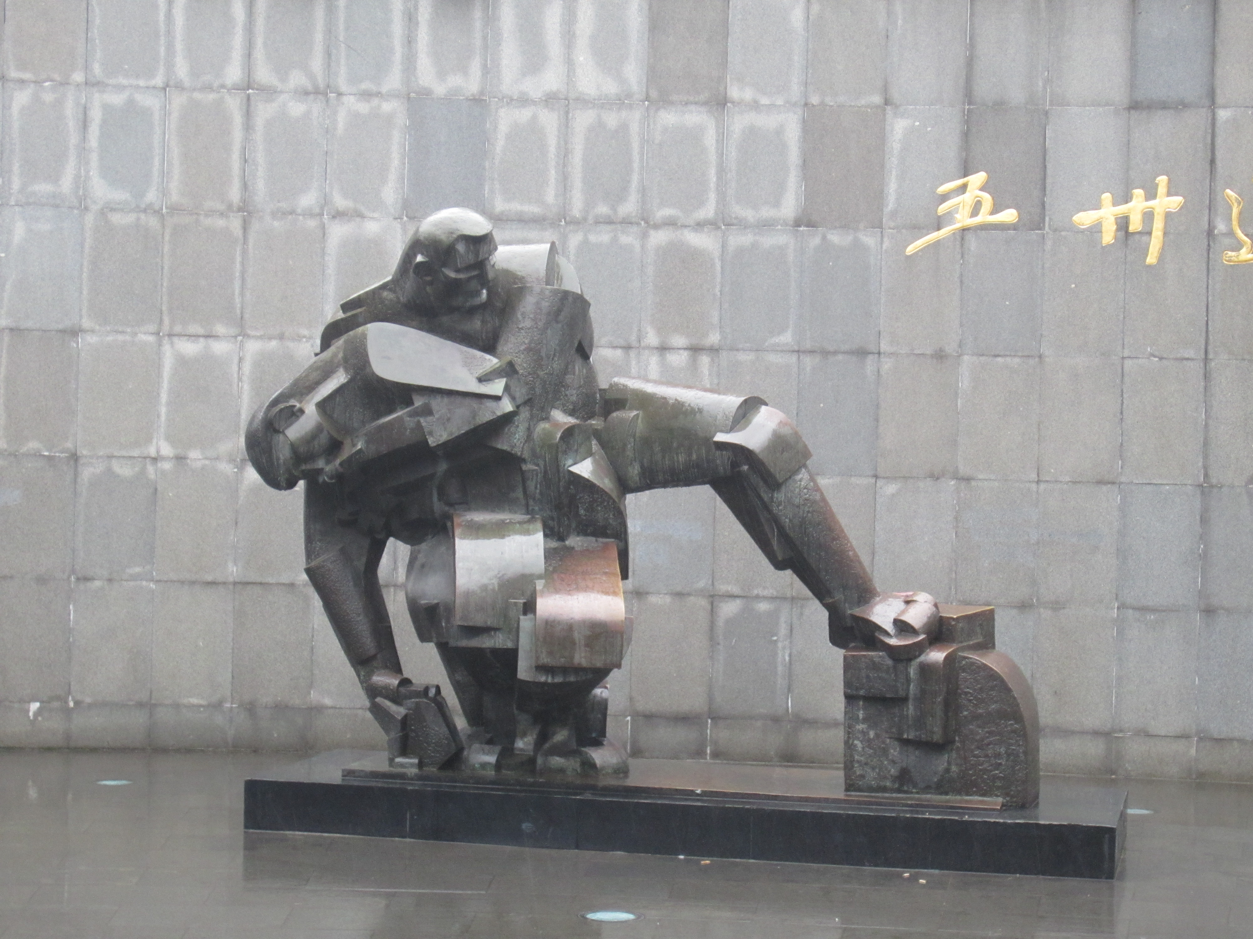 May Thirtieth Movement Monument, People's Park, Shanghai, China (2015)